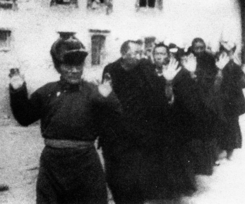 Tsarong in captivity